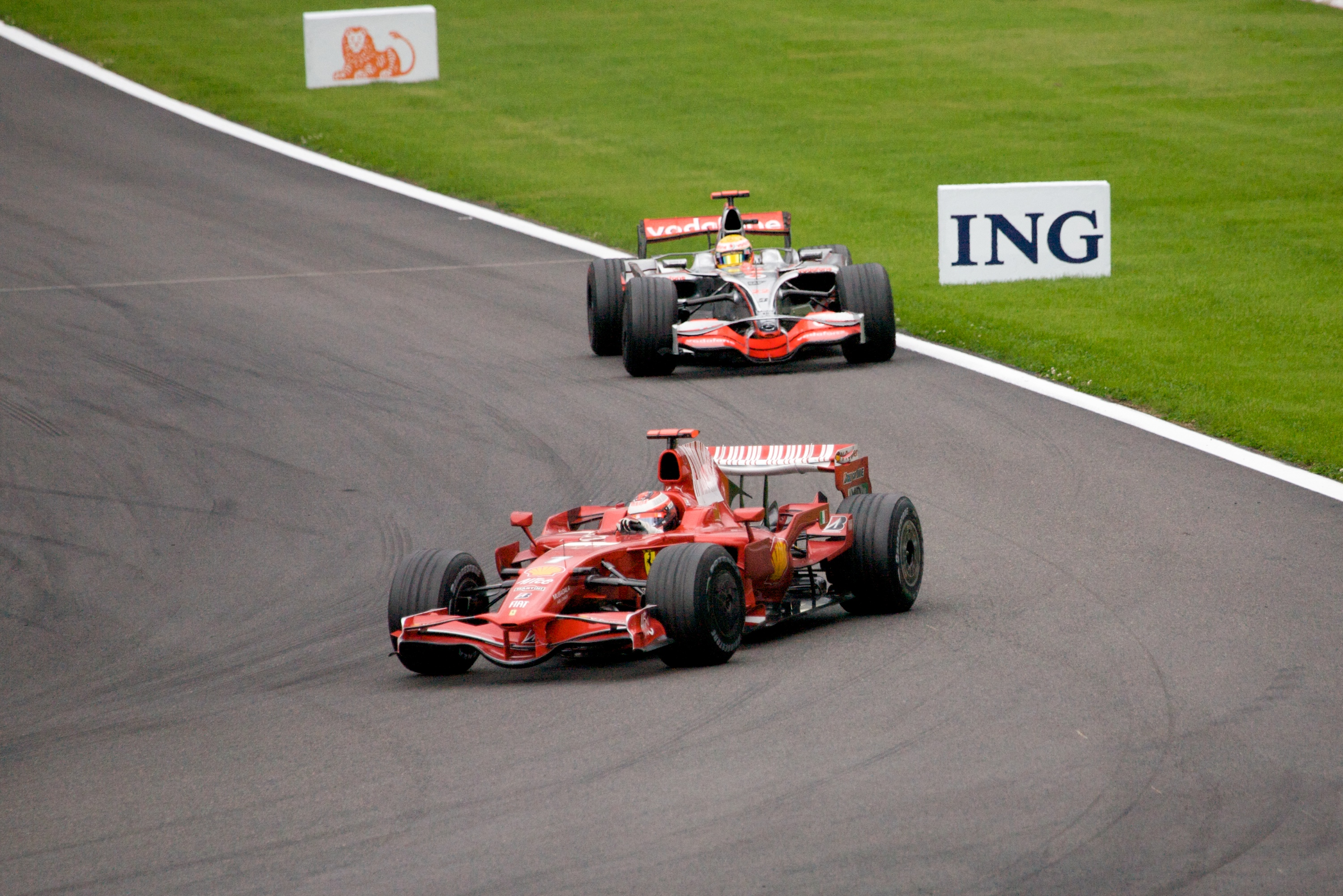 Lewis starts to gain on Kimi as the rain starts to fall